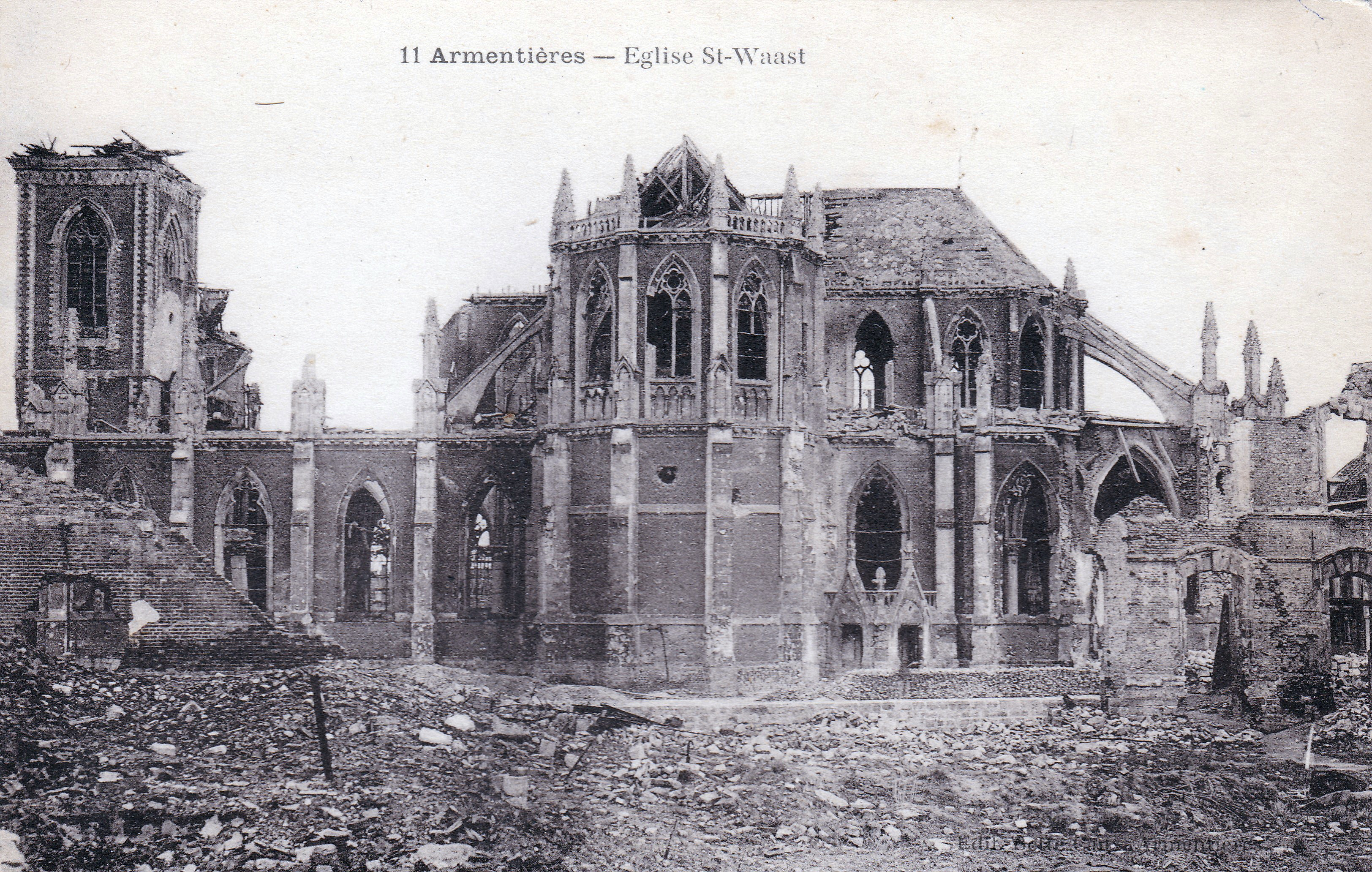 Armentières - Ruins of St Waast church - or Saint Vaast, after the Great War [WWI] -1919- Armentières - Ruins of St Waast Church, after the Great War [ WWI ] -1919